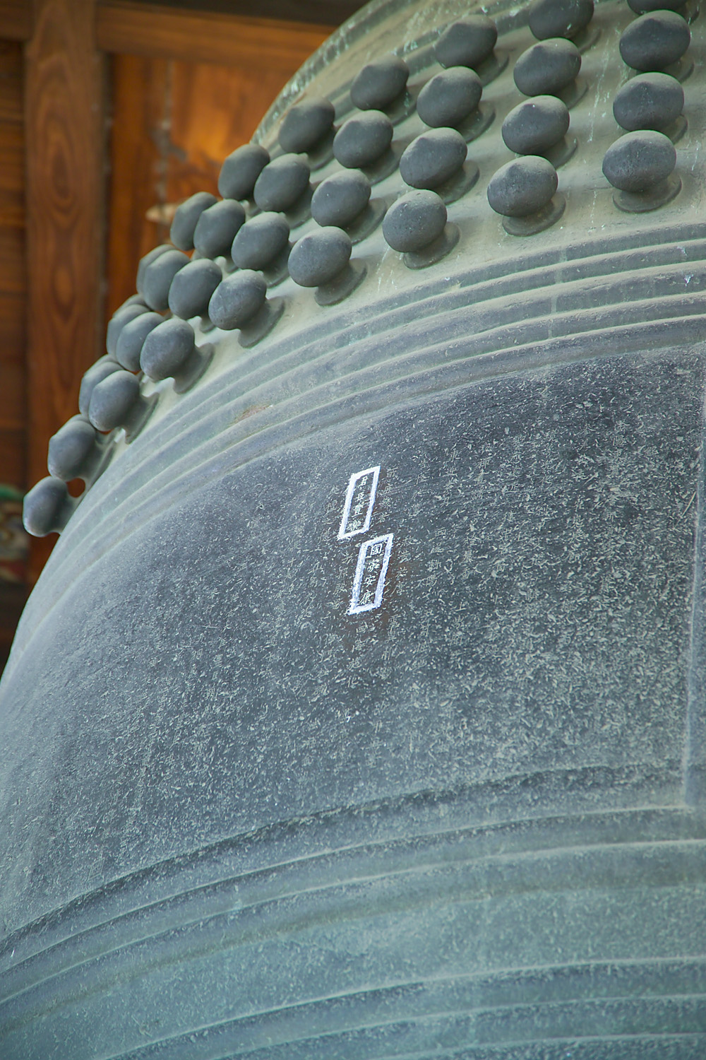 This photograph shows the bell at Hokoji in Kyoto, Japan. I took the photo and contribute my rights in the file to the public domain; individuals and organizations retain rights to images in the file. Detail